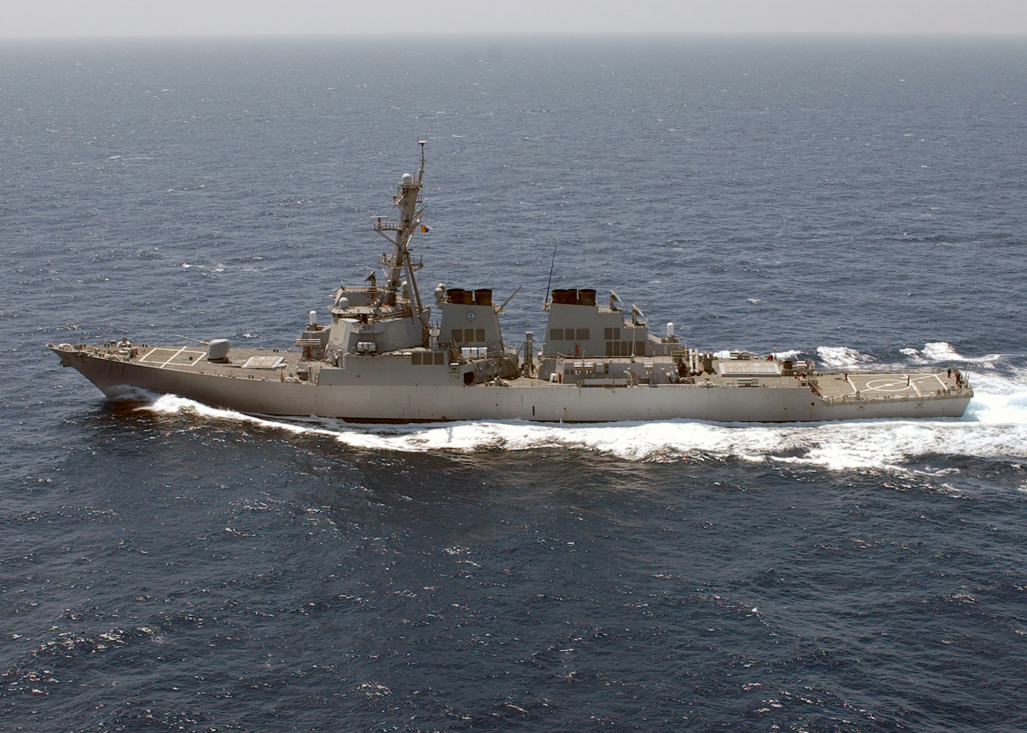 Central Command's area of Responsibility (Mar. 29, 2003) — The Arleigh Burke-class guided missile destroyer USS O’Kane (DDG-77) conducts underway operations in support of Operation Iraqi Freedom. O’Kane was one of many U.S. Navy surface combatants to fire Tomahawk Land Attack Missiles (TLAMs) in support of Operation Iraqi Freedom, the multi-national coalition effort to liberate the Iraqi people, eliminate Iraq’s weapons of mass destruction, and end the regime of Saddam Hussein.